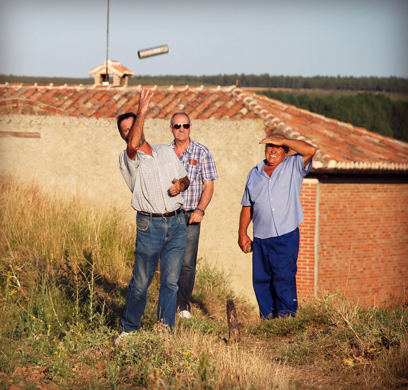 Round of Chana a morrillo game at Villamelendro de Valdavia anual festival (Palencia, Castile and León).